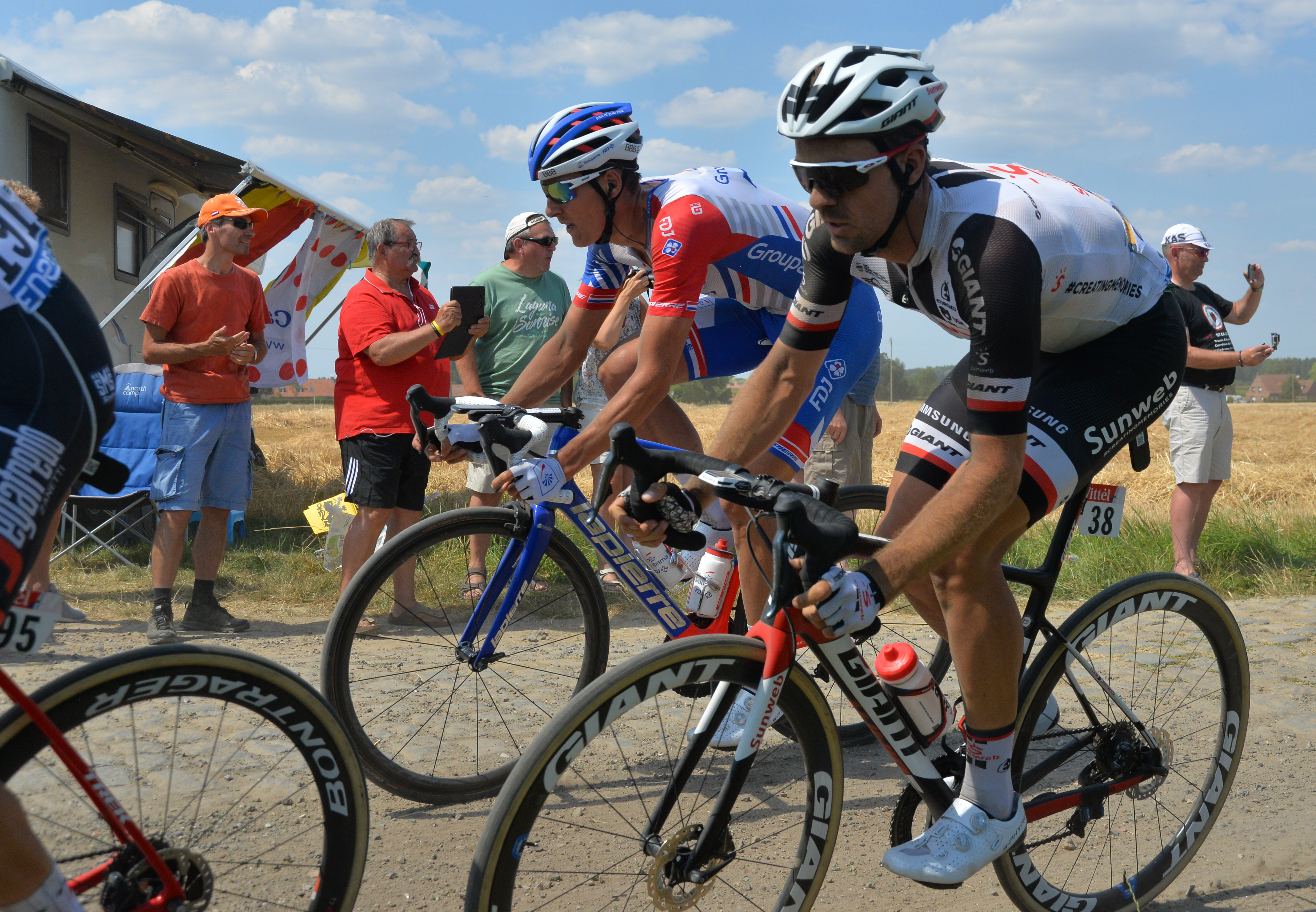 2018 Tour de France – stage 9 sector 9